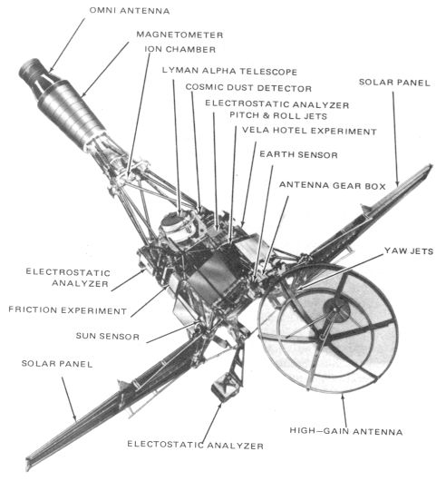 MockupScientific Experiments on the Block I Spacecraft